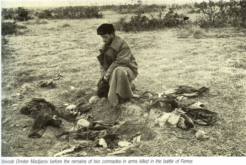 Bulgarian military commander Dimitar Madzharov in front of remains of Bulgarians after the battle of Fere (nowadays Feres, north-western Greece), killed by the Ottoman forces, 1913.